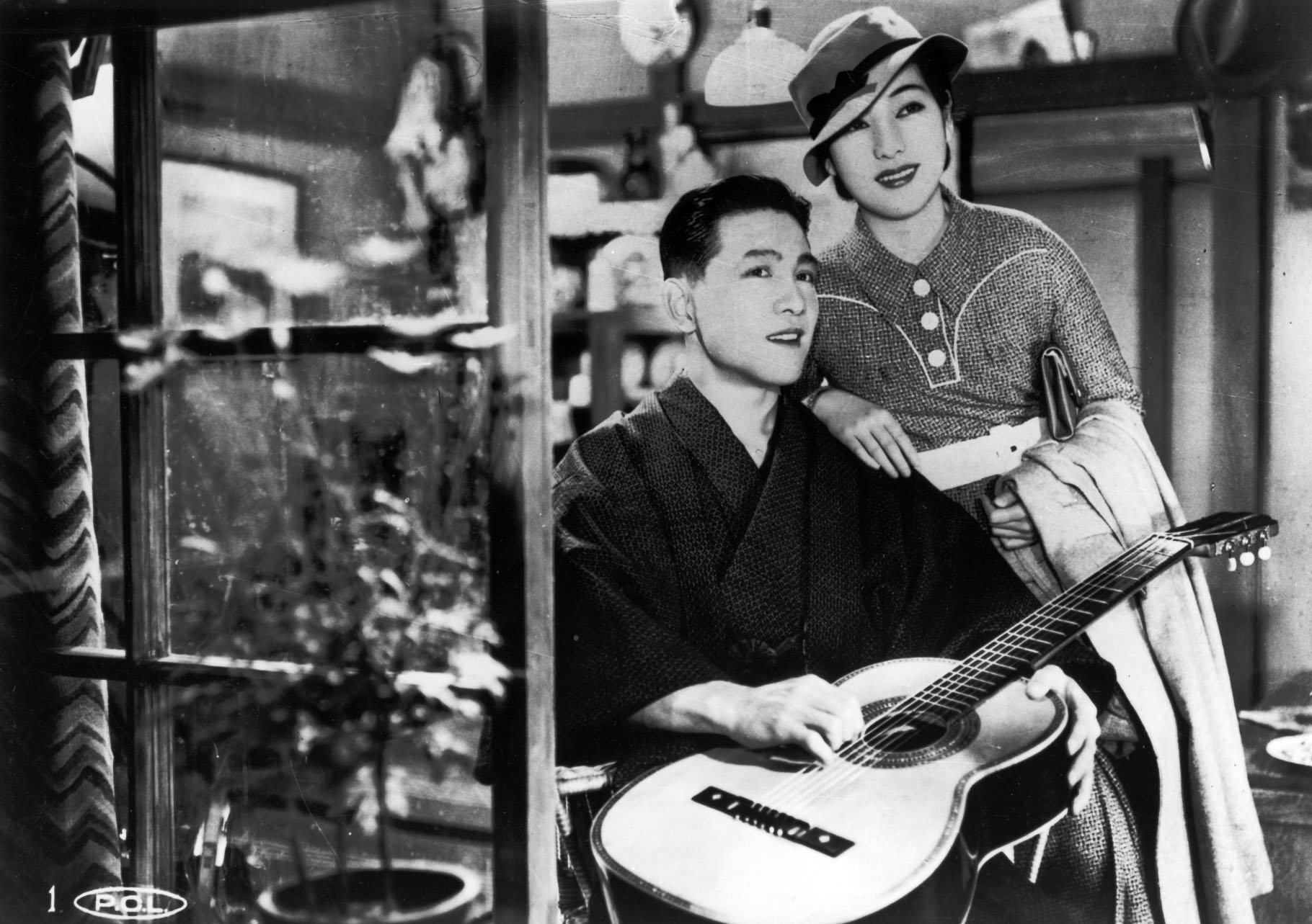 Heihachirō Ōkawa and Sachiko Chiba in Tsuma yo bara no yo ni (1935) directed by Mikio Naruse